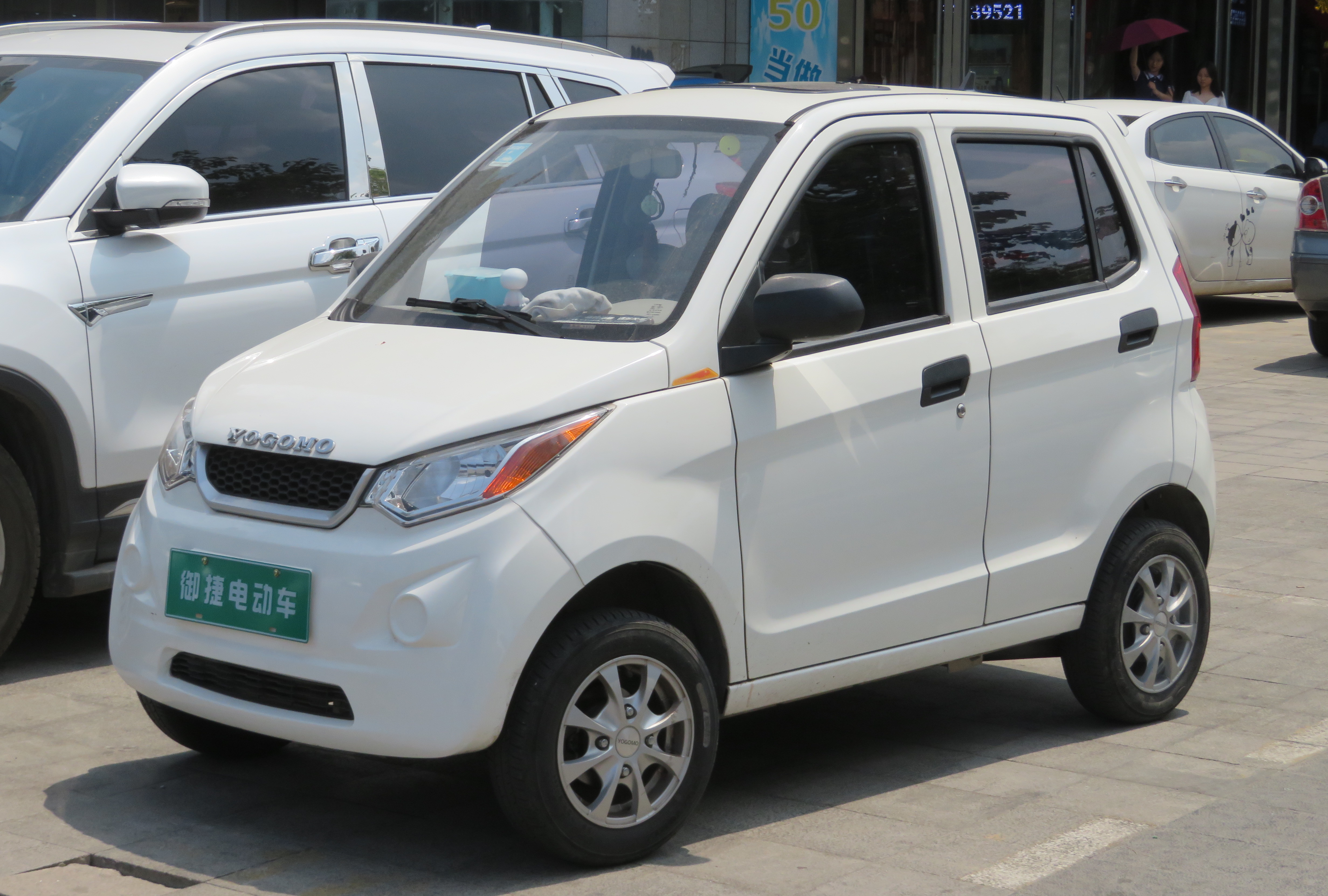 Photographed in Luoyang, Henan province, China